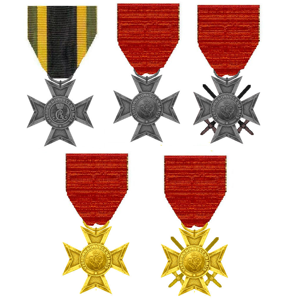 Orden vom Weissen Valken oder der Wachsamkeit Order of the White Falcon Cross of Merit